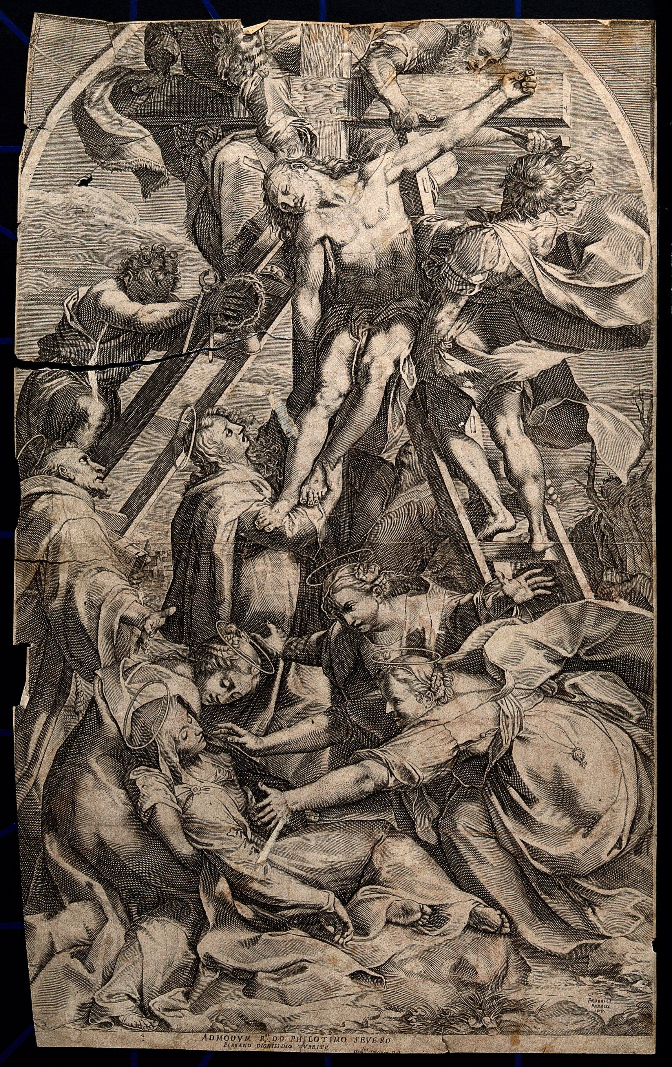 The dead Christ is taken down from the cross. Line engraving by D. Falcini after F. Barocci. Iconographic Collections Keywords: Mary Magdalene; Jesus Christ; Federico Barocci; Domenico Falcini; John; Mary